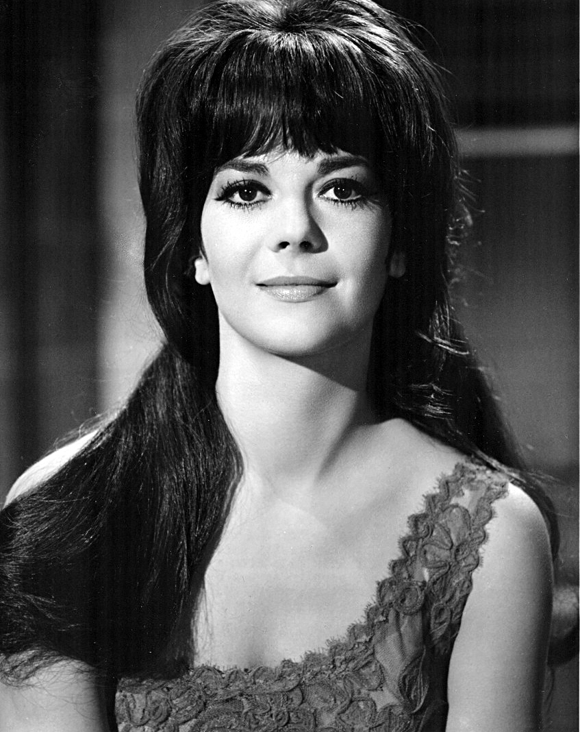 Publicity photo of Natalie Wood in the film Penelope (1966).